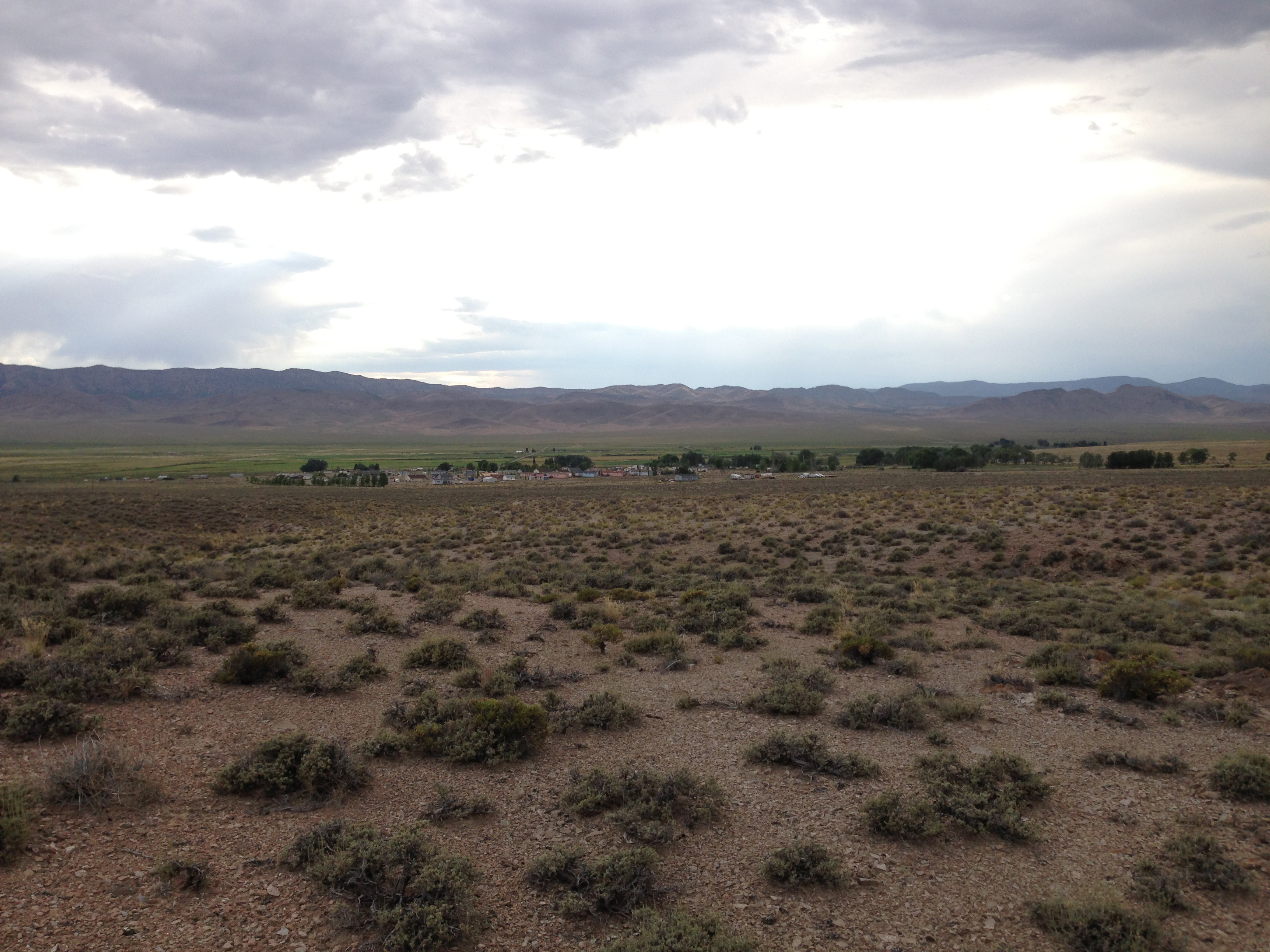 View of Duckwater, Nevada from the east